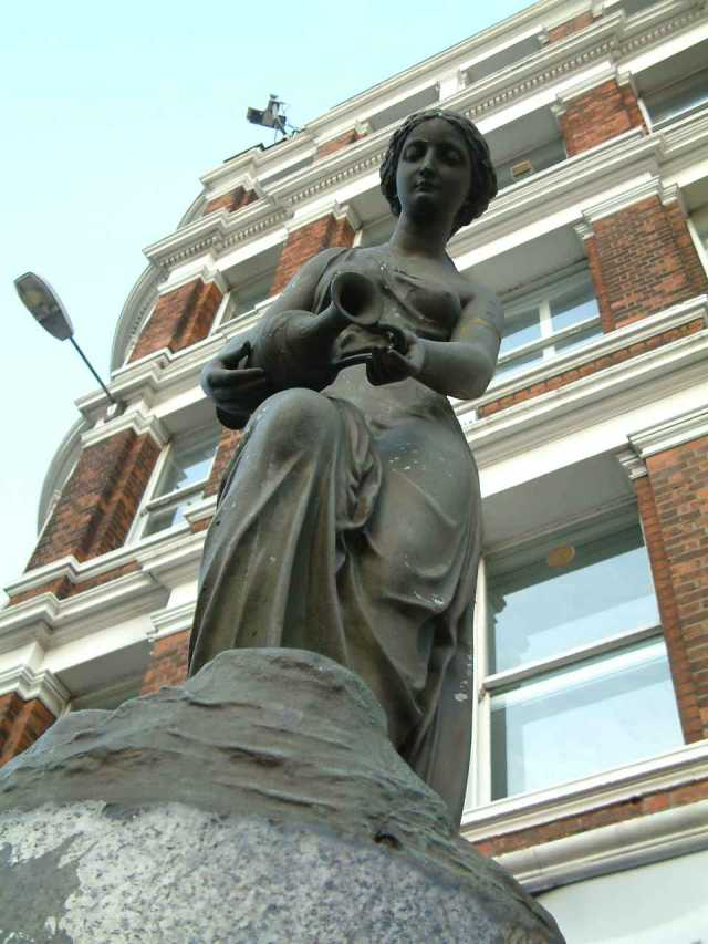 Temperance - Statue - Blackfriars Bridge north end - London - England - 240404 According to: bob at : an excellent fountain, surmounted by a charming small statue of a graceful, lightly draped girl pouring from a pitcher. It is the work of Wills Bros. sculpt, working for the famous Coalbrookdale Iron Company. The girl is Temperance, and this fountain was presented in 1861 by no less than Samuel Gurney, founder of what later became the Metropolitan Drinking Fountain Cattle and Trough Association (see the page on Victorians and Water). It originally stood by the Royal Exchange, and came here in 1911.